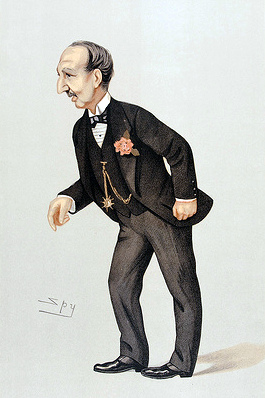 Caricature of Edward Field. Royal Navy senior officer and MP. Caption read "The Yellow Admiral".